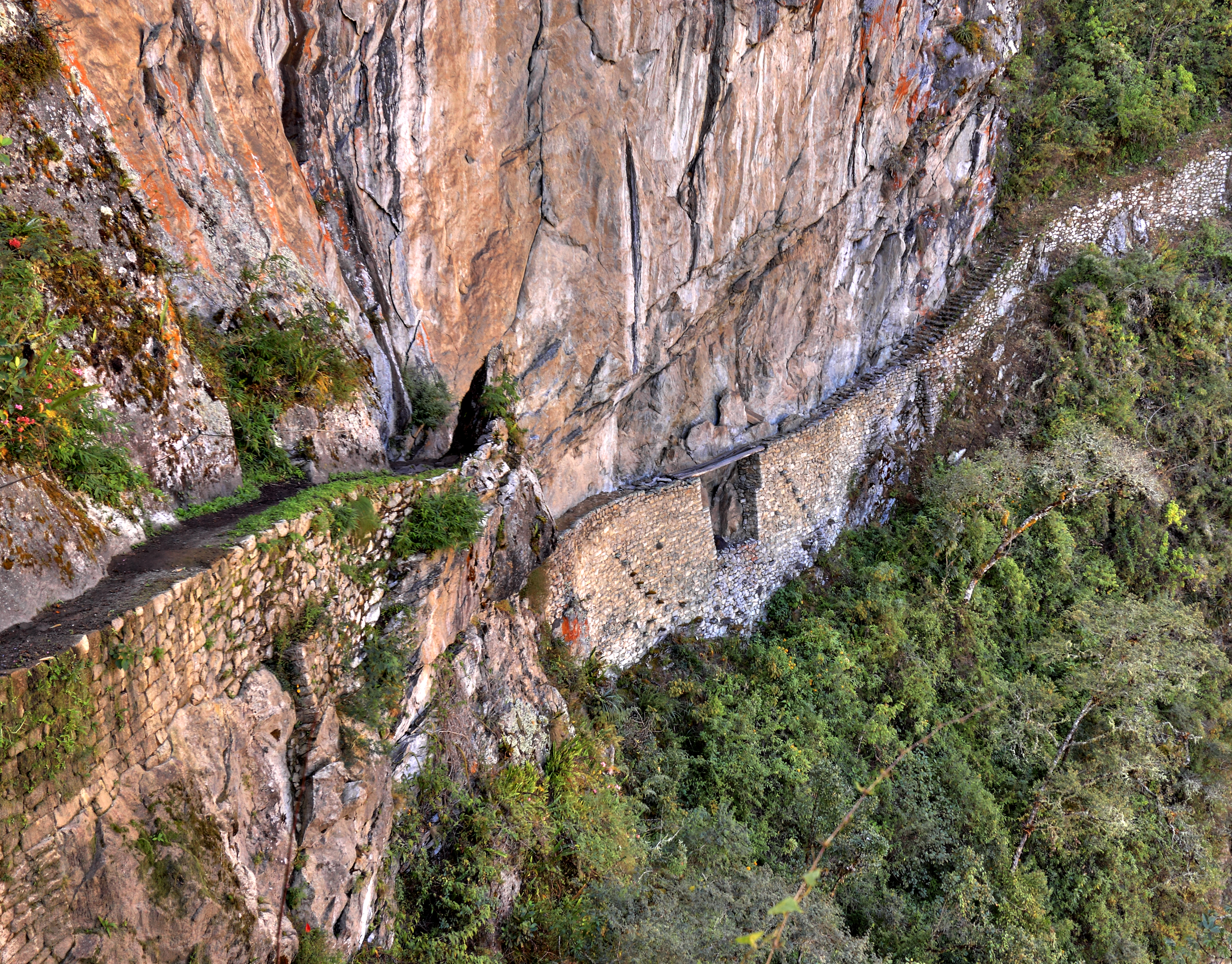 Please, have this description accessible to all by translating it in different languages.